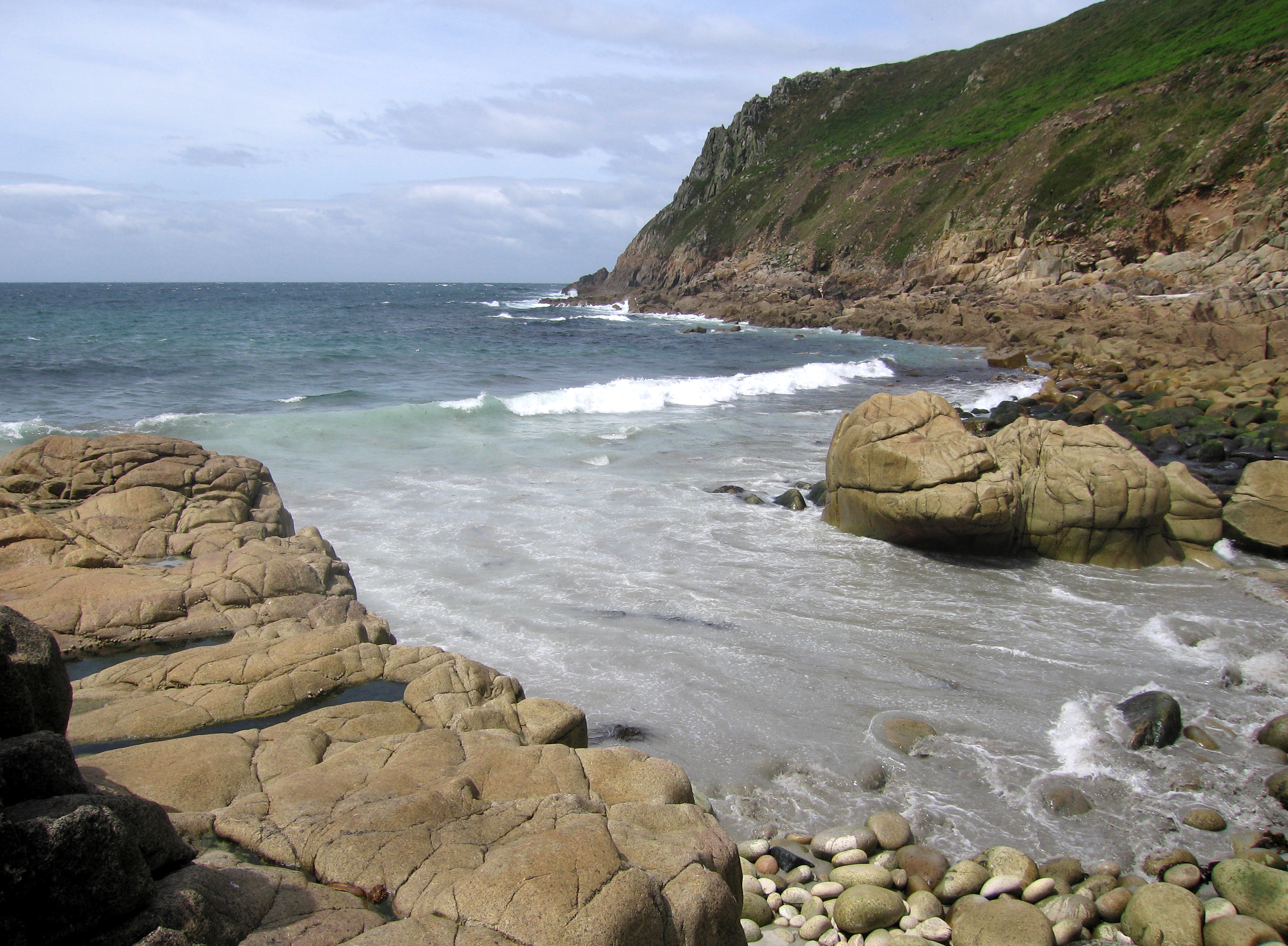 Cot Valley Beach, near St. Just in Cornwall